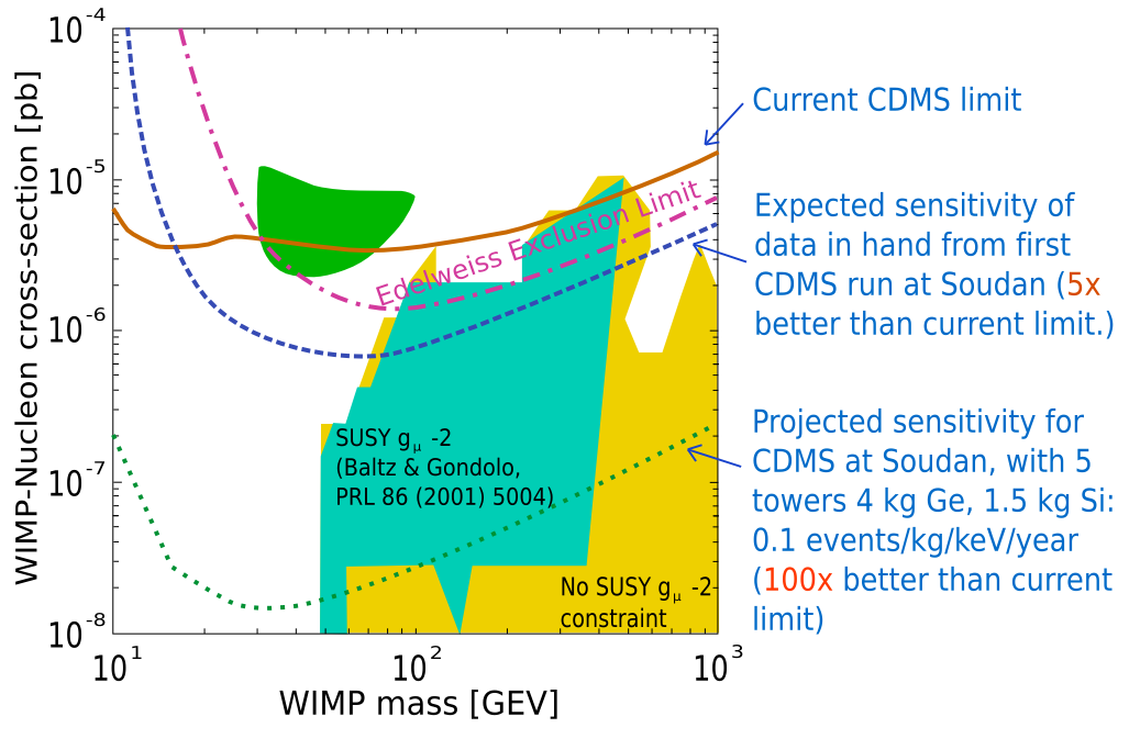 CDMS (cryogenic dark matter search) parameter space exclusion of DAMA result represented in green parameter space.